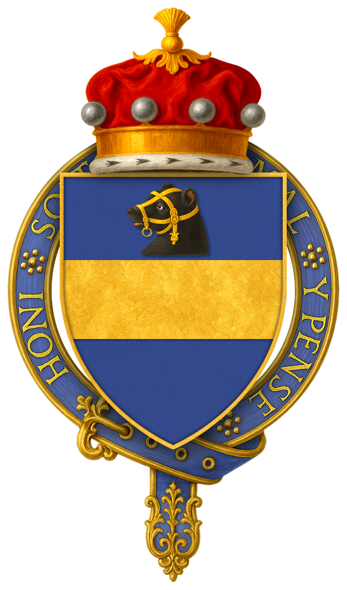 Coat of Arms of Alexander Baring, 6th Baron Ashburton, KG, KCVO, KStJ, DL